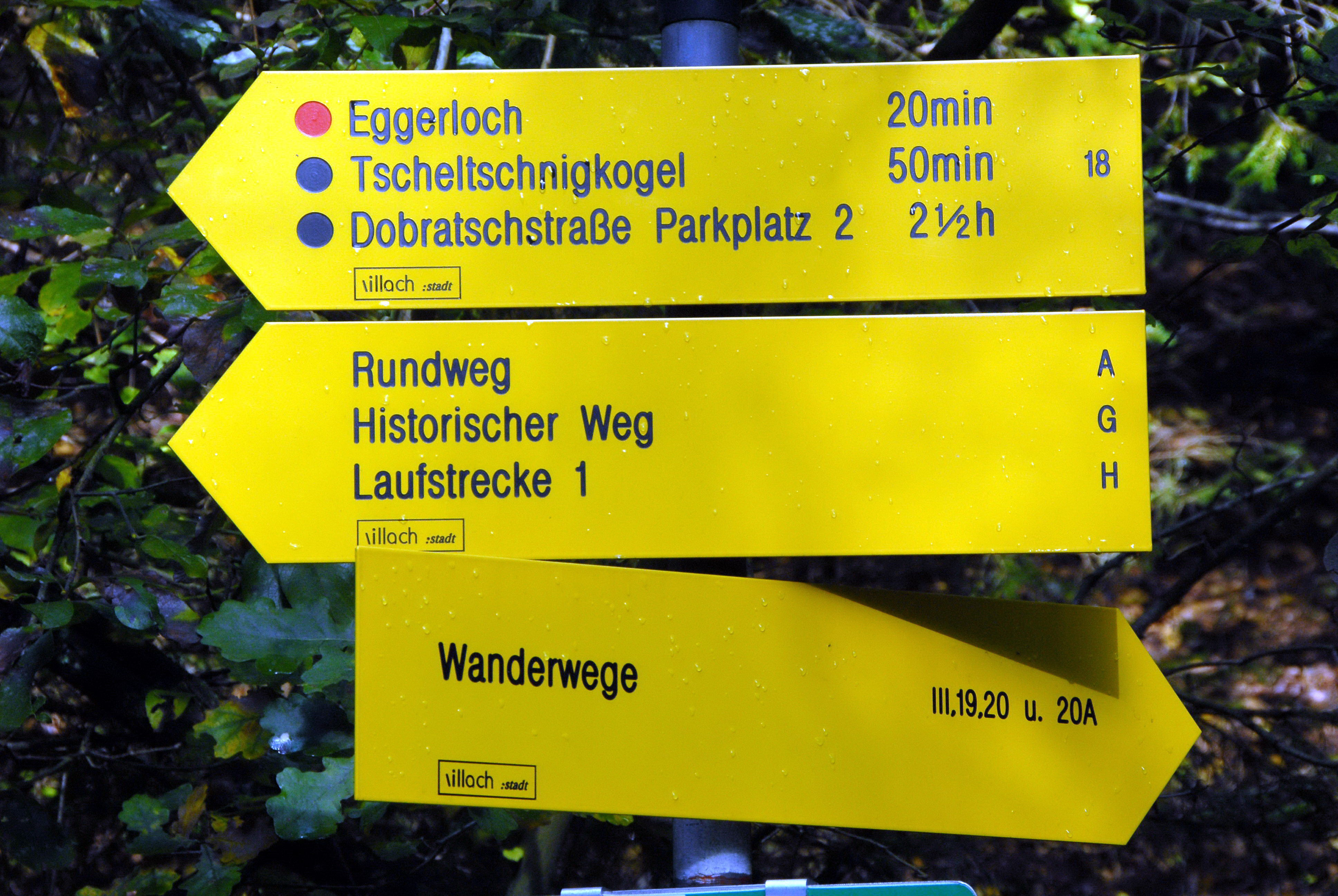 Markers showing the way to Eggerloch and Tscheltschnigkogel near “Warmbad” in Villach, Carinthia, Austria